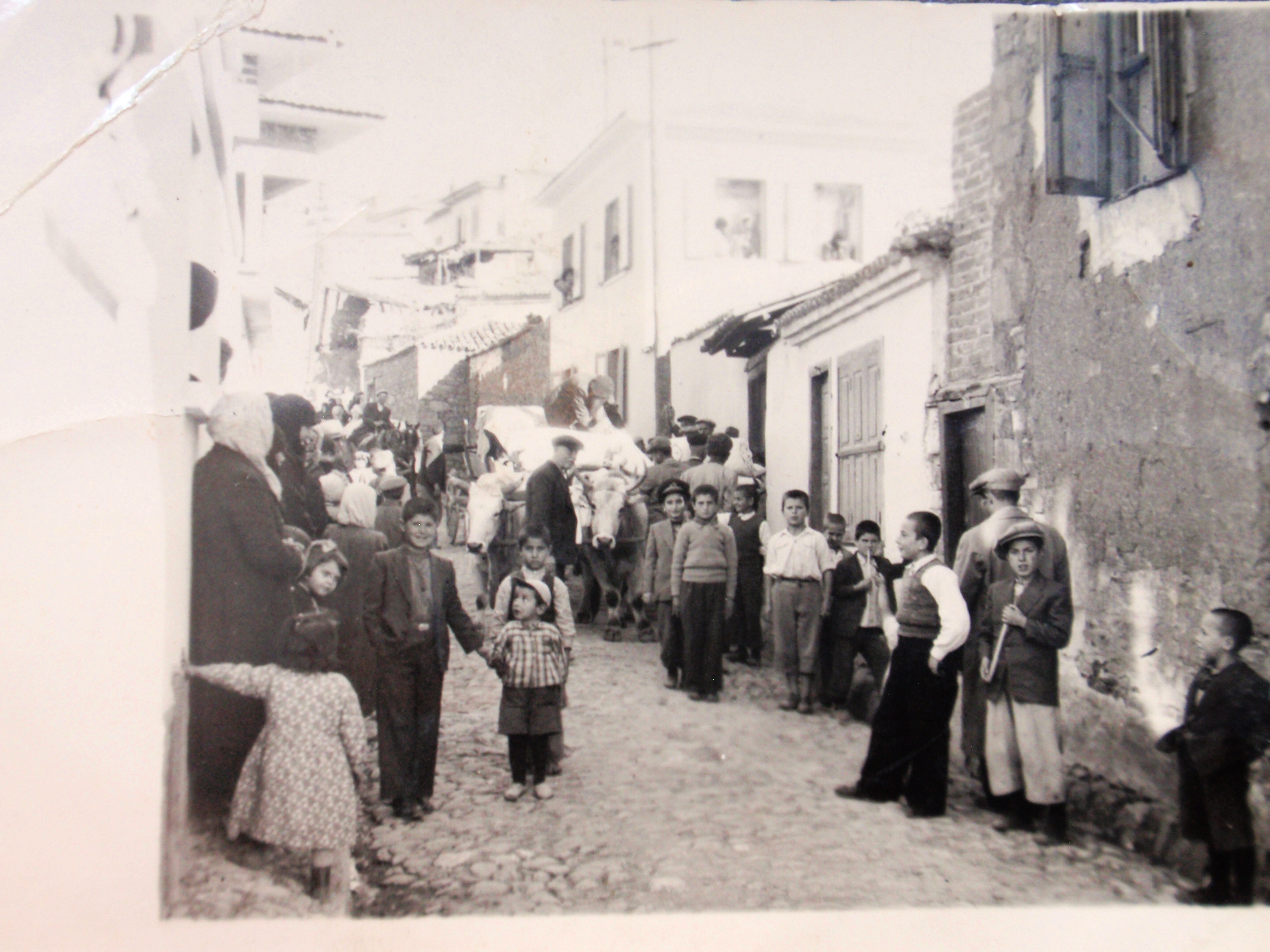 old pelitköy